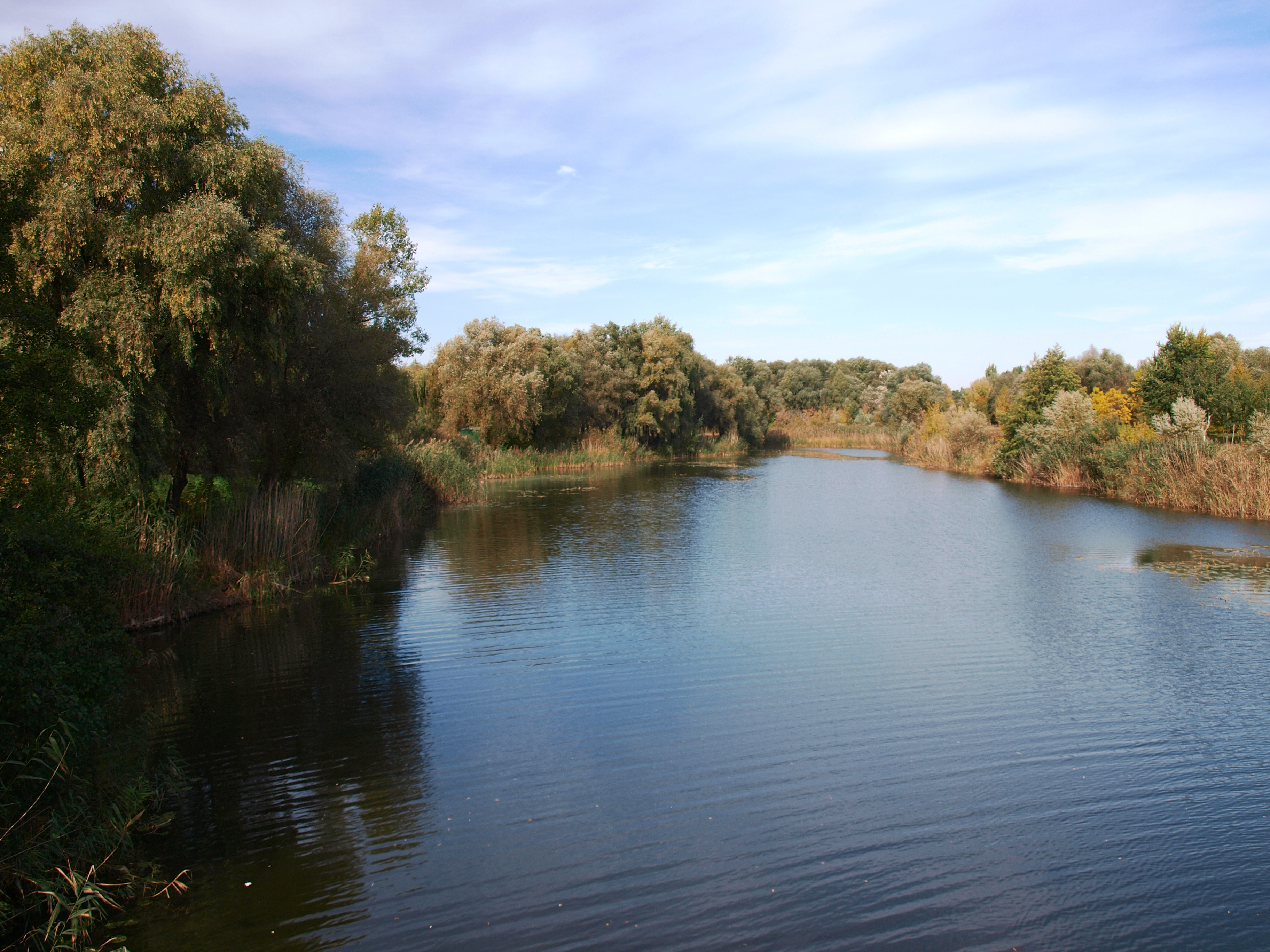 The river Horol in Myrhorod